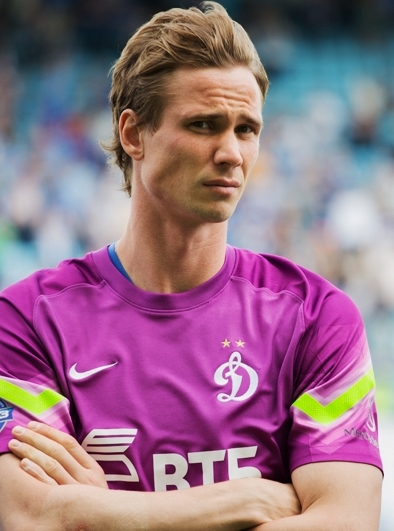 Anton Shunin